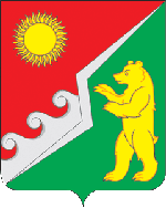 Blazon Kodinsk